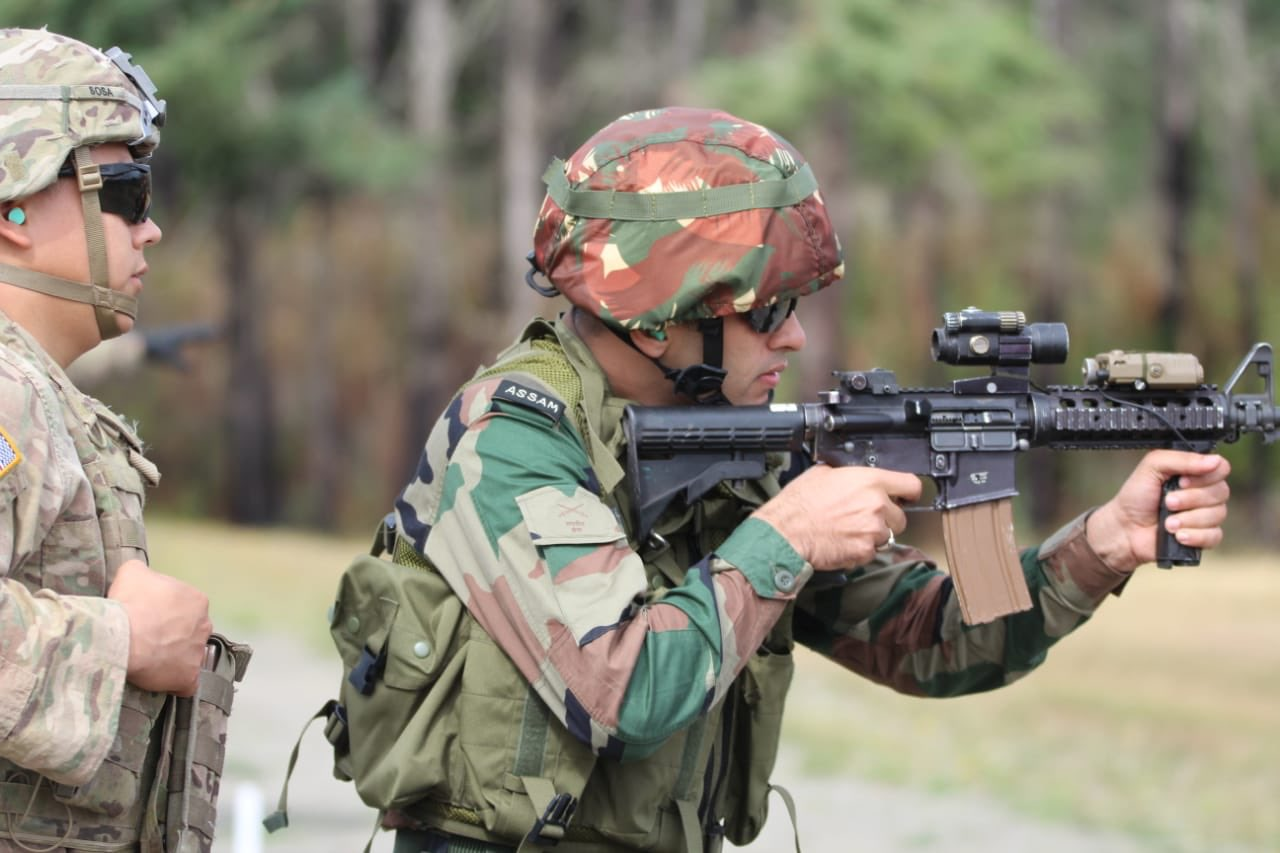 Indian Troops during a exercise with US Army back in September, 2019